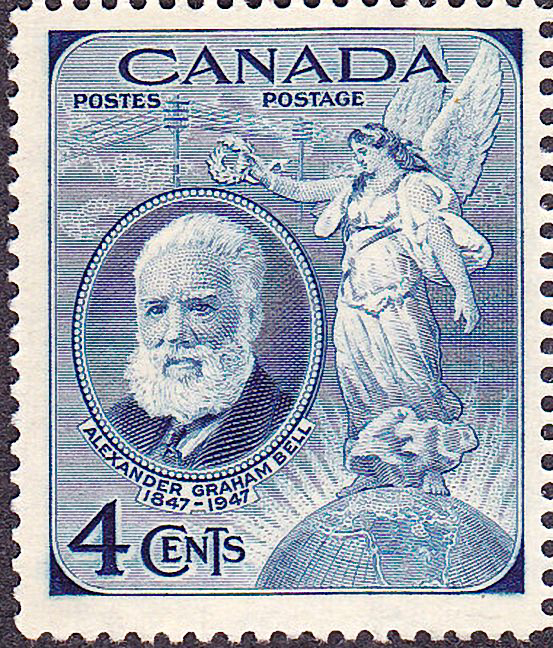 Canada Postage stamp, Alexander Graham Bell 100th anniversary of birth commemorative issue, 4c, blue